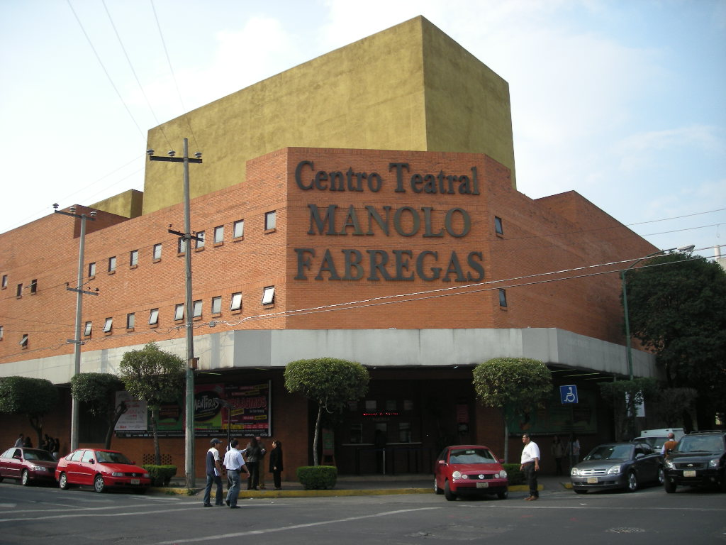 Manolo Fabregas Theater in Colonia San Rafael, Cuauhtemoc, Mexico City